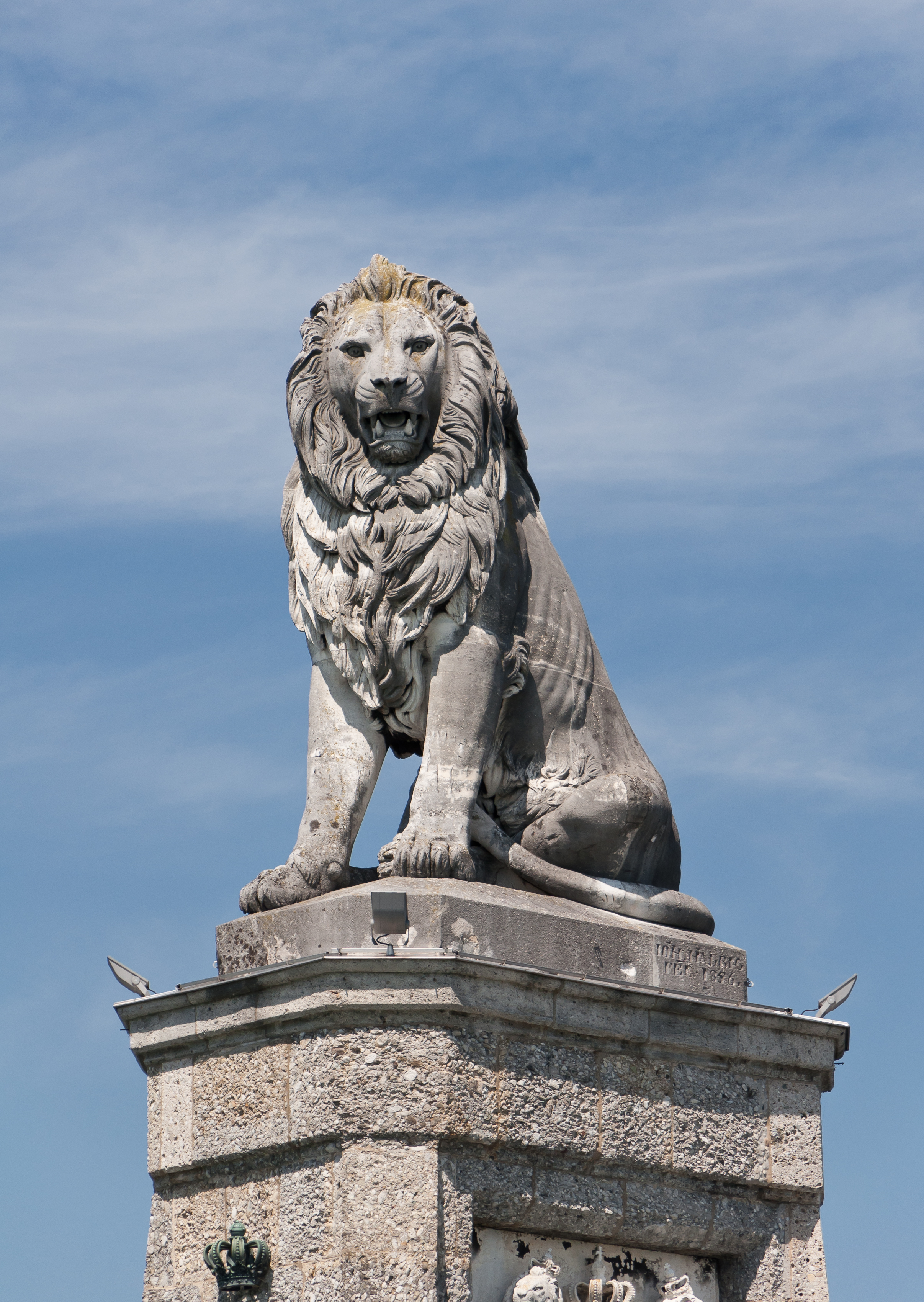 Bavarian Lion on one side of the port entrance of Lindau.